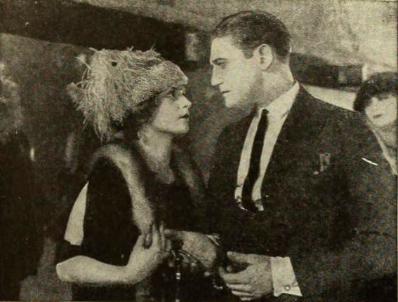 Still from the American crime drama film Fools First (1922) with Claire Windsor and Richard Dix, on page 58 of the October 1922 Photoplay.